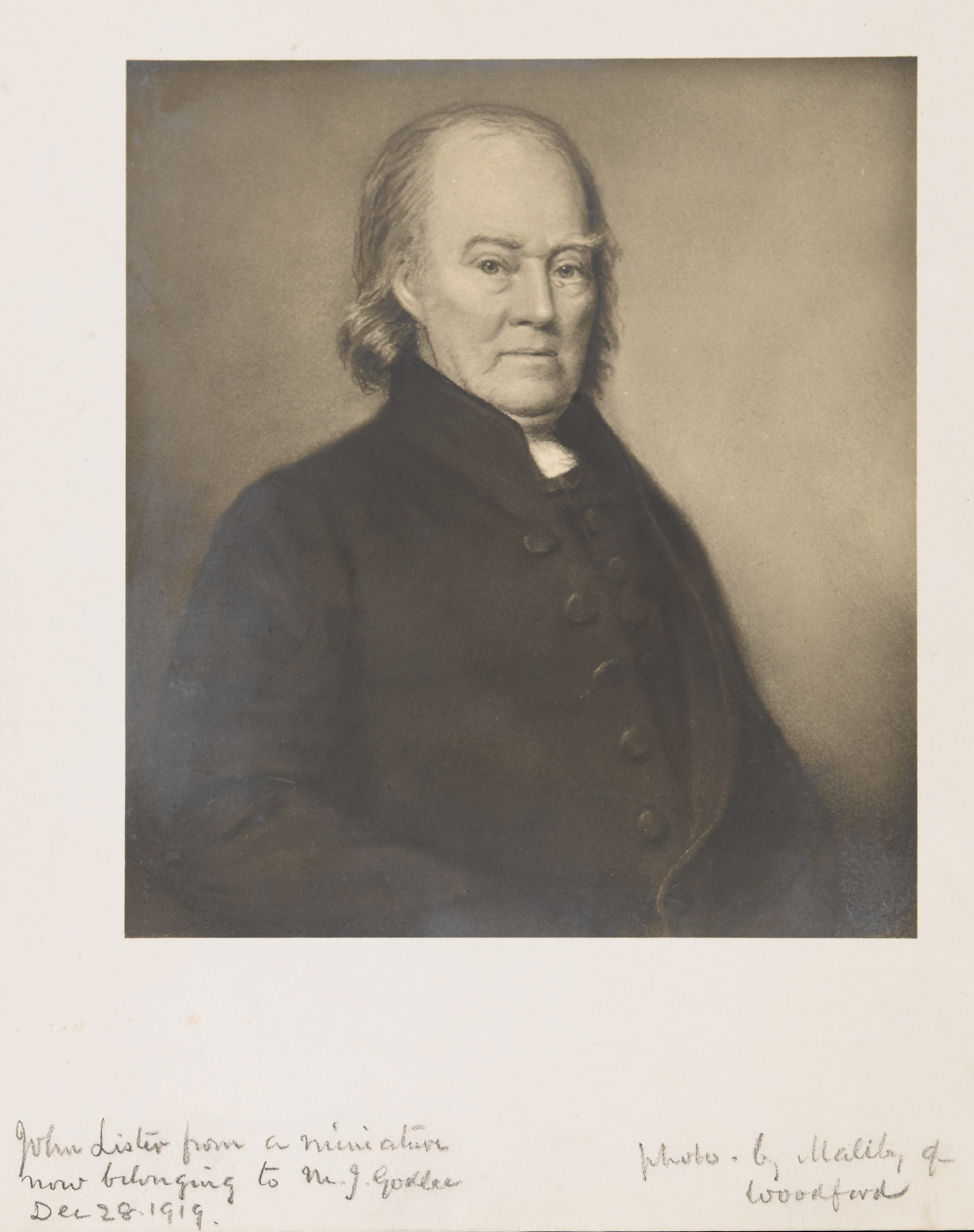 Portrait of John Lister (8 March 1847 - 12 October 1933), an English philanthropist and politician Archives & Manuscripts Keywords: Malils of Woodford; Politician; British; John Lister